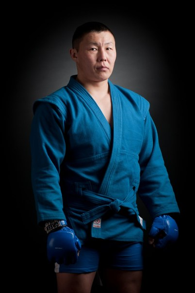 Russian combat sambist of buryat ethnicity. World combat sambo champion